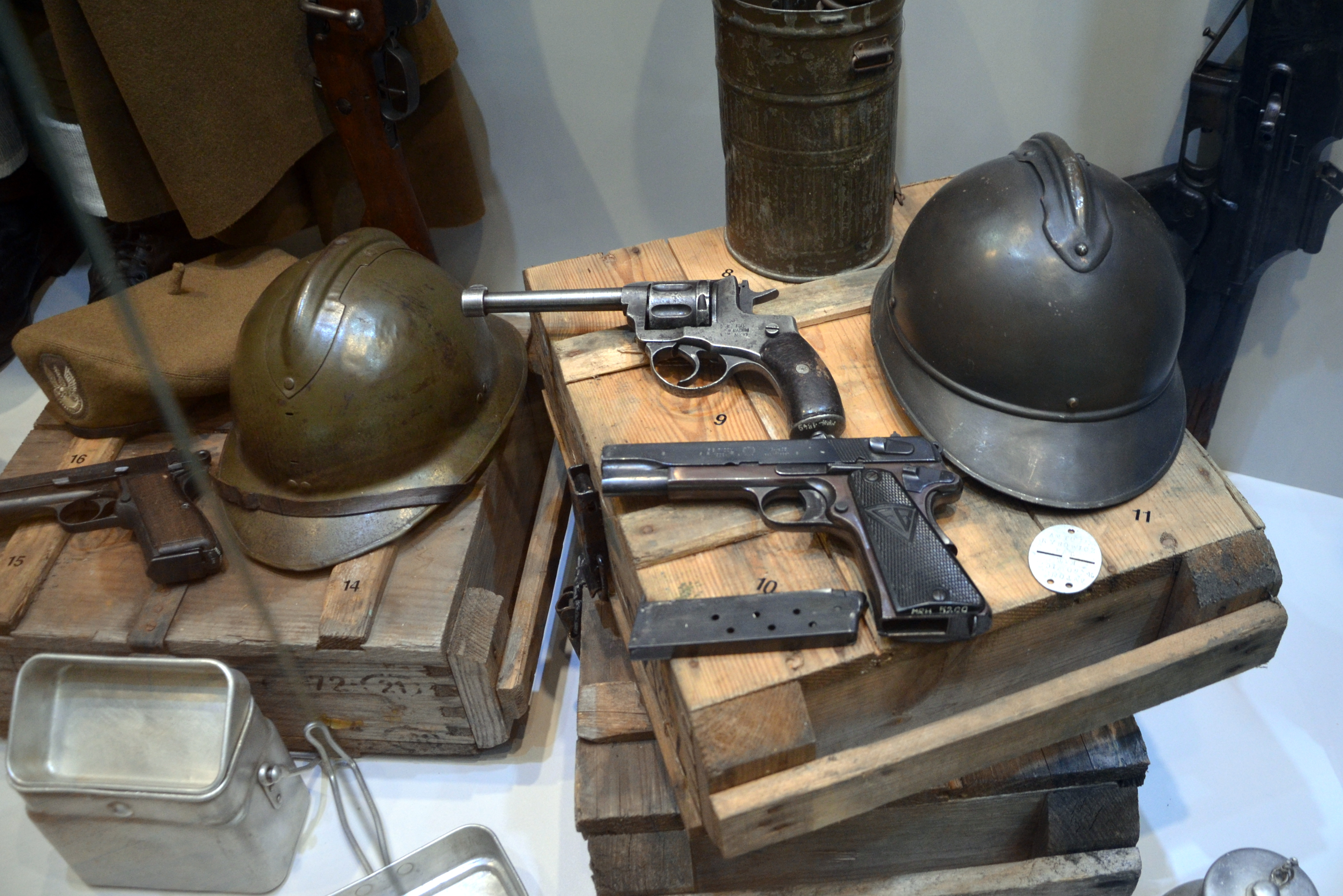 Military uniforms of Poland (II RP)